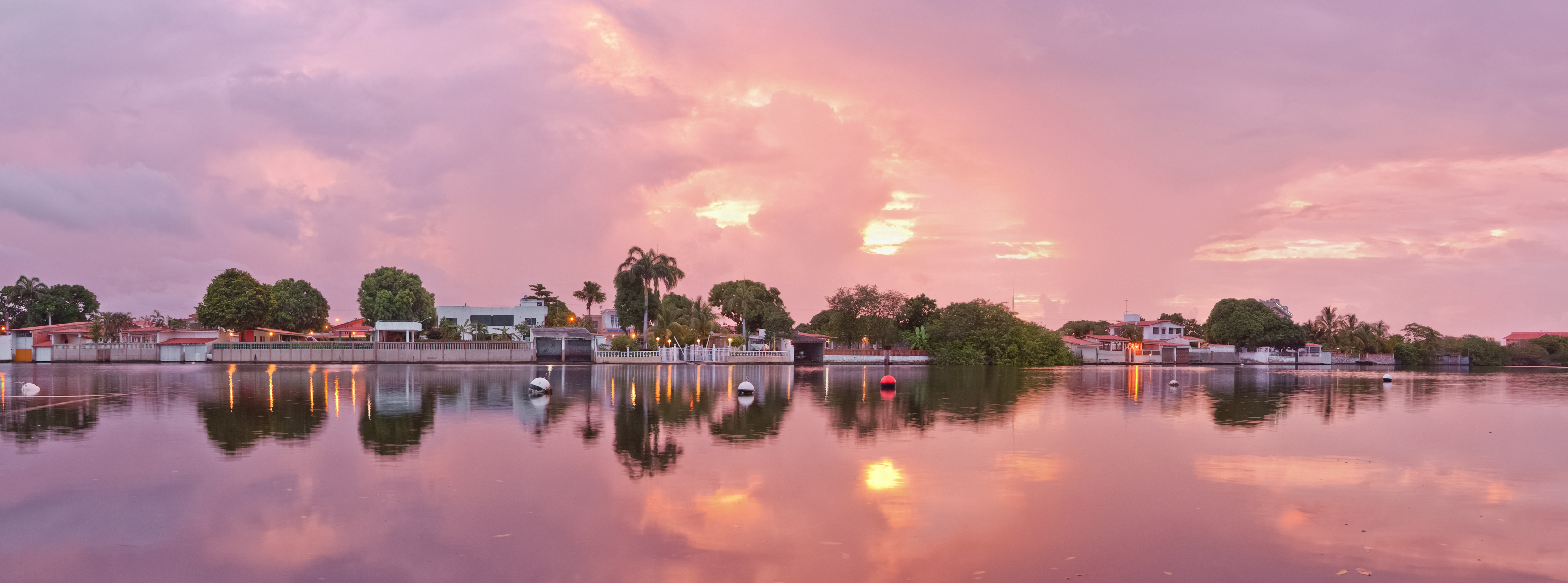 Panoramic view of Puerto Encantado (Enchanted Dock) at Dawn (time: 05:35 a.m.), in the town of Higuerote, Venezuela.